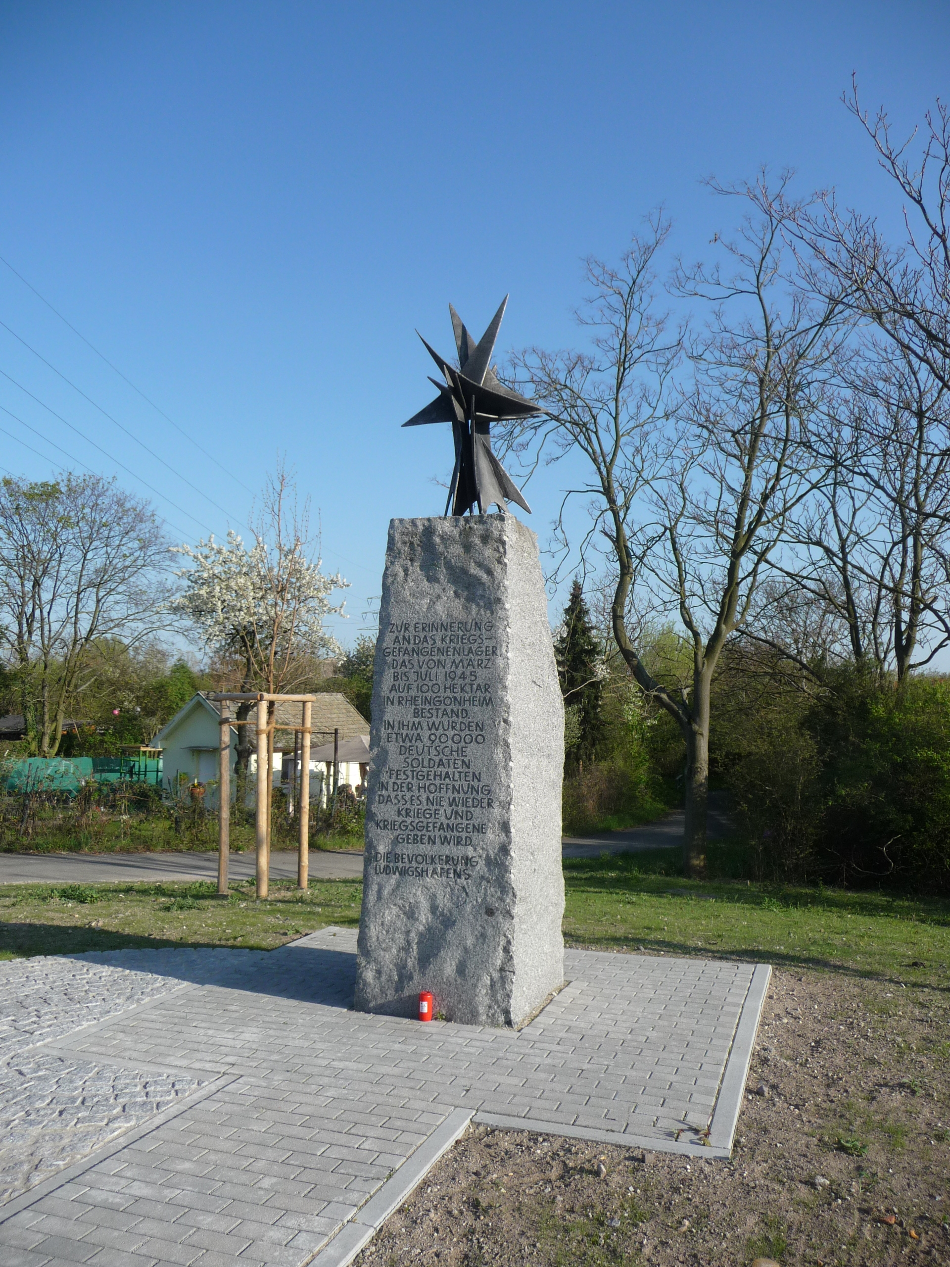 Rheingönheim